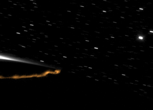 A false-colour still image of visible light of the aurora above Saturn's North pole taken by the Cassini spacecraft. See also File:Saturns Northern Aurora in Motion.gif the animated version or the orginal source for more details.